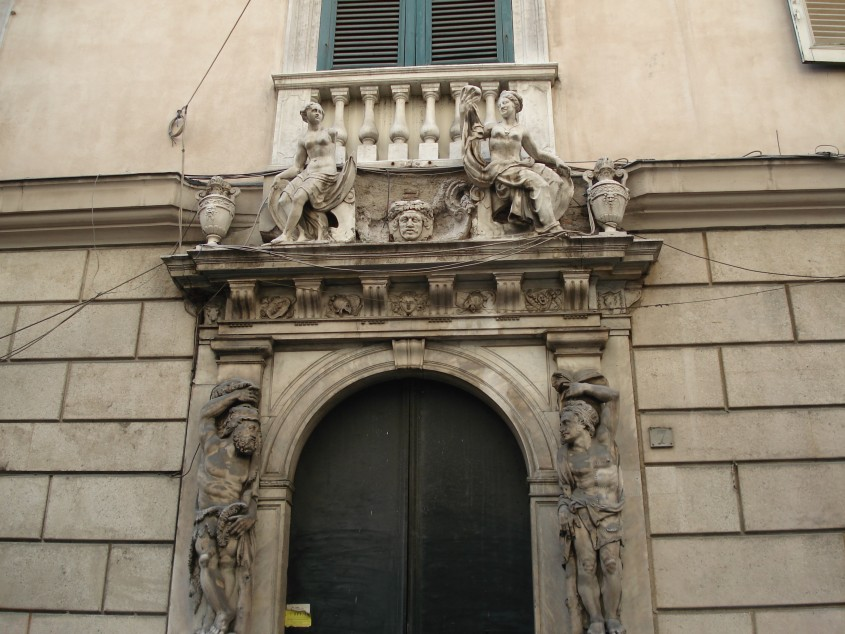 Lercari-Spinola Palace in Genova